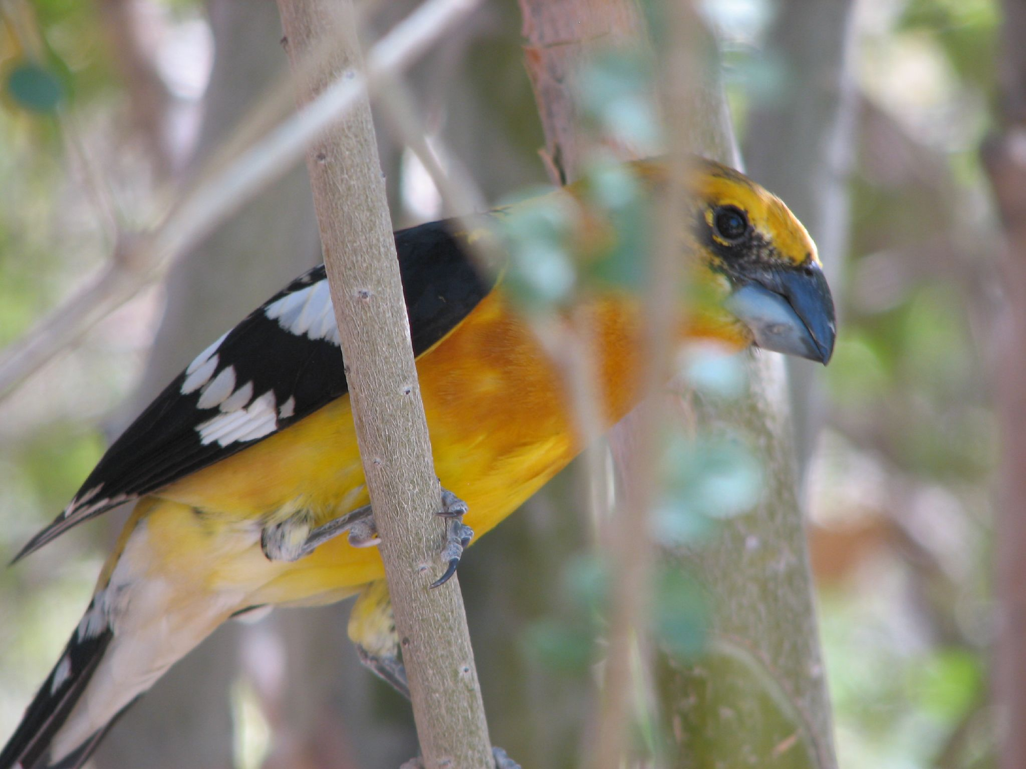 Yellow Grosbeak, Pheucticus chrysopeplus